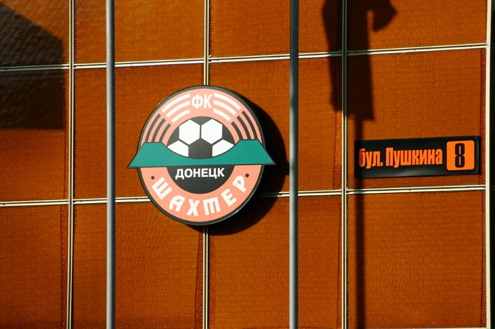 Infocenter of FC-Shakhtar-Donetsk at Donetsk, Ukraine. Made from public place (street)